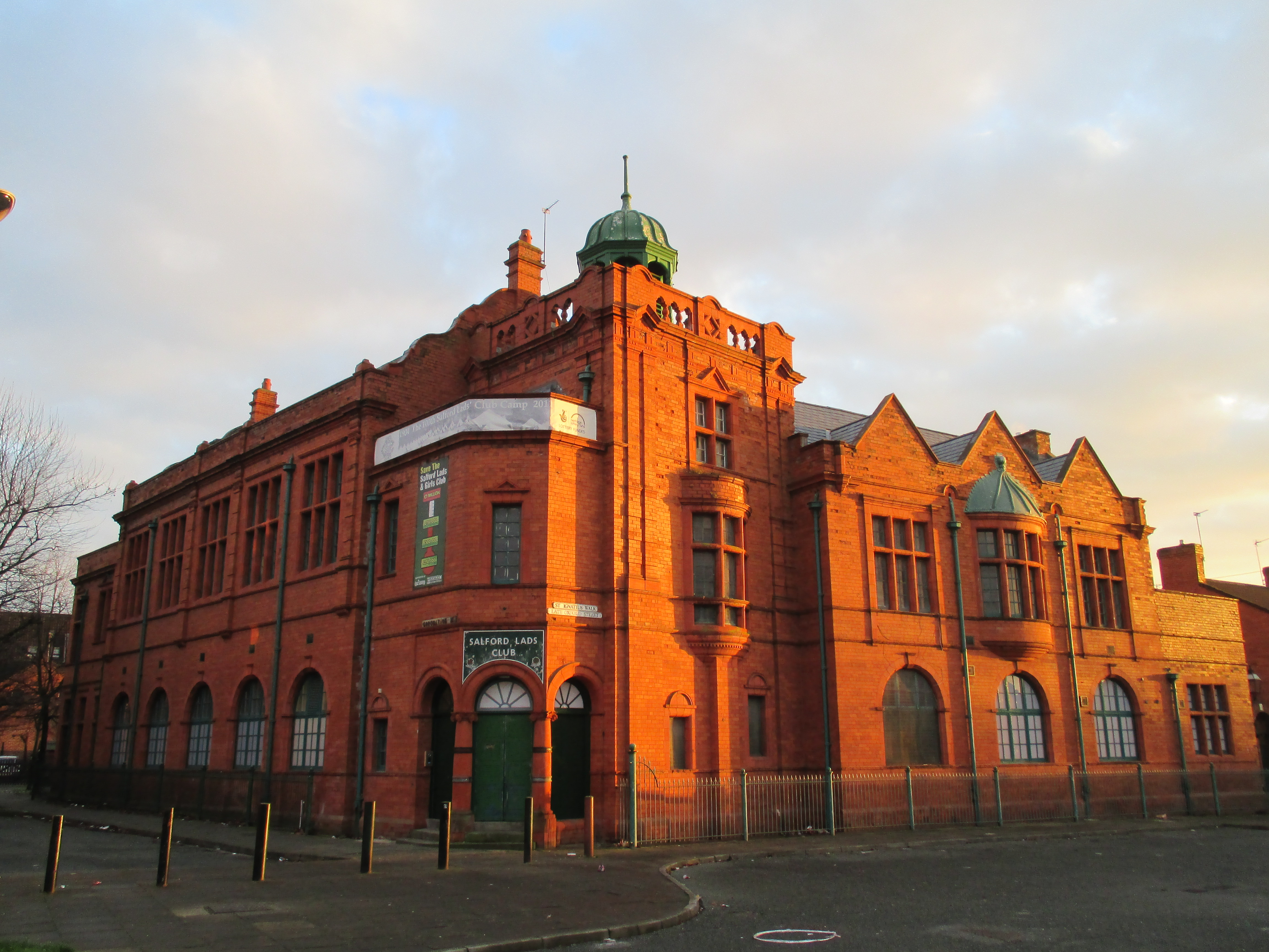 Salford Lads Club, Greater Manchester, England.